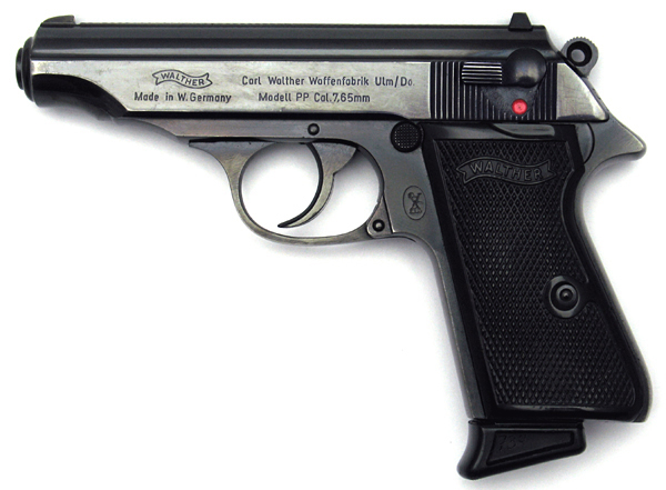 1972 Walther PP